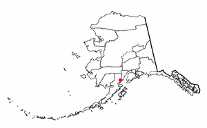 Adapted from Wikipedia's AK borough maps by Seth Ilys.